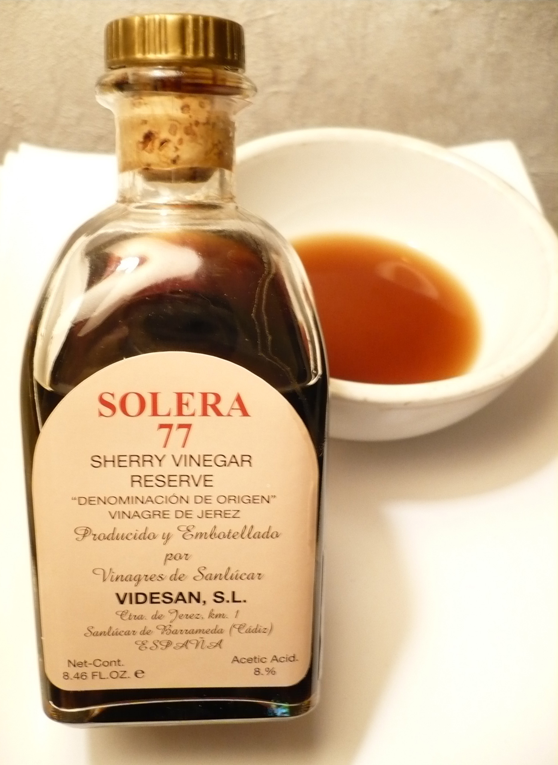 A bottle and bowl of commercially produced Sherry vinegar, produced in Sanlucar de Barrameda, Spain. Photo taken in Kent, United States.